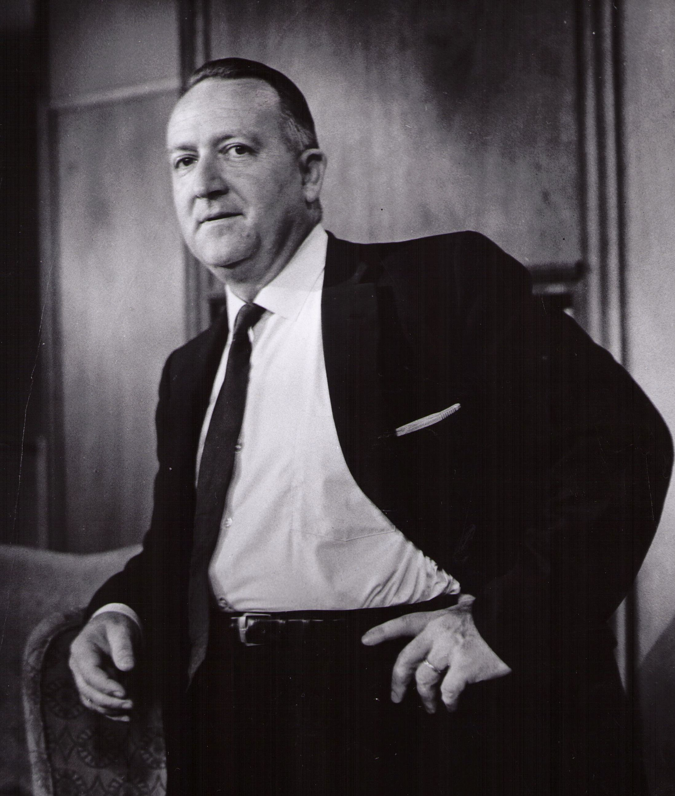 Leonard J Arrington, the "Dean of Mormon History" photographed in the 1950s